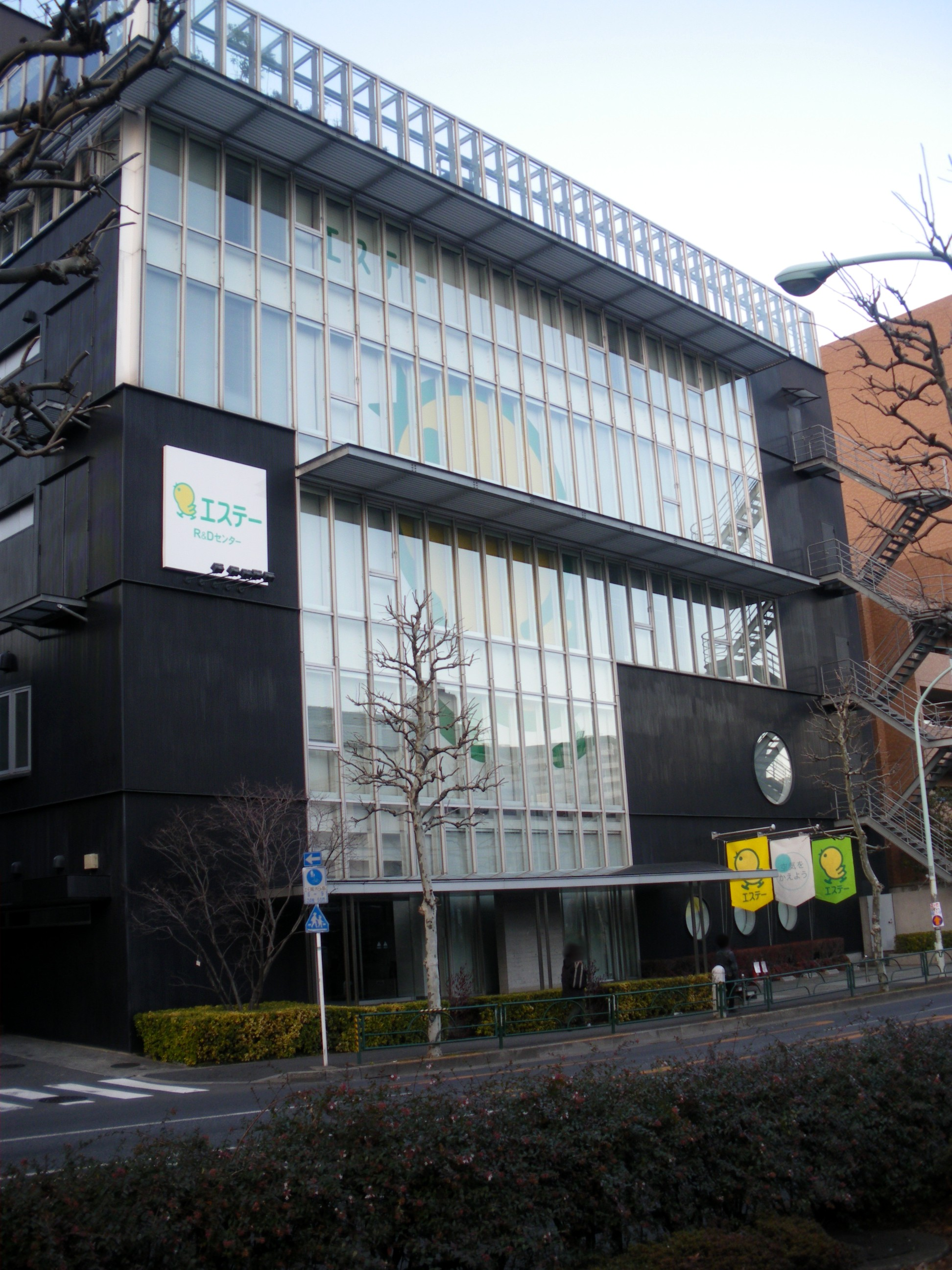 A photo of S. T. Corporation(a Japanese company that manufactures household chemicals (e.g. deodorants or repellents)).R&D Center,Shimoochiai,Shinjuku-ku,Tokyo,Japan.